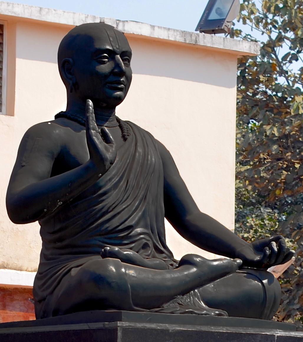 Statue of 15th-century Odia poet Balarama Dasa outside the Bhanja Kalamandap in Bhubaneswar, Odisha, India. ଓଡ଼ିଆ: ଭୁବନେଶ୍ୱରର ଭଞ୍ଜ କଳାମଣ୍ଡପ ବାହାରେ ଥିବା ପଞ୍ଚଦଶ ଶତାବ୍ଦୀର କବି ବଳରାମ ଦାସଙ୍କ ପ୍ରତିମୂର୍ତ୍ତି ।